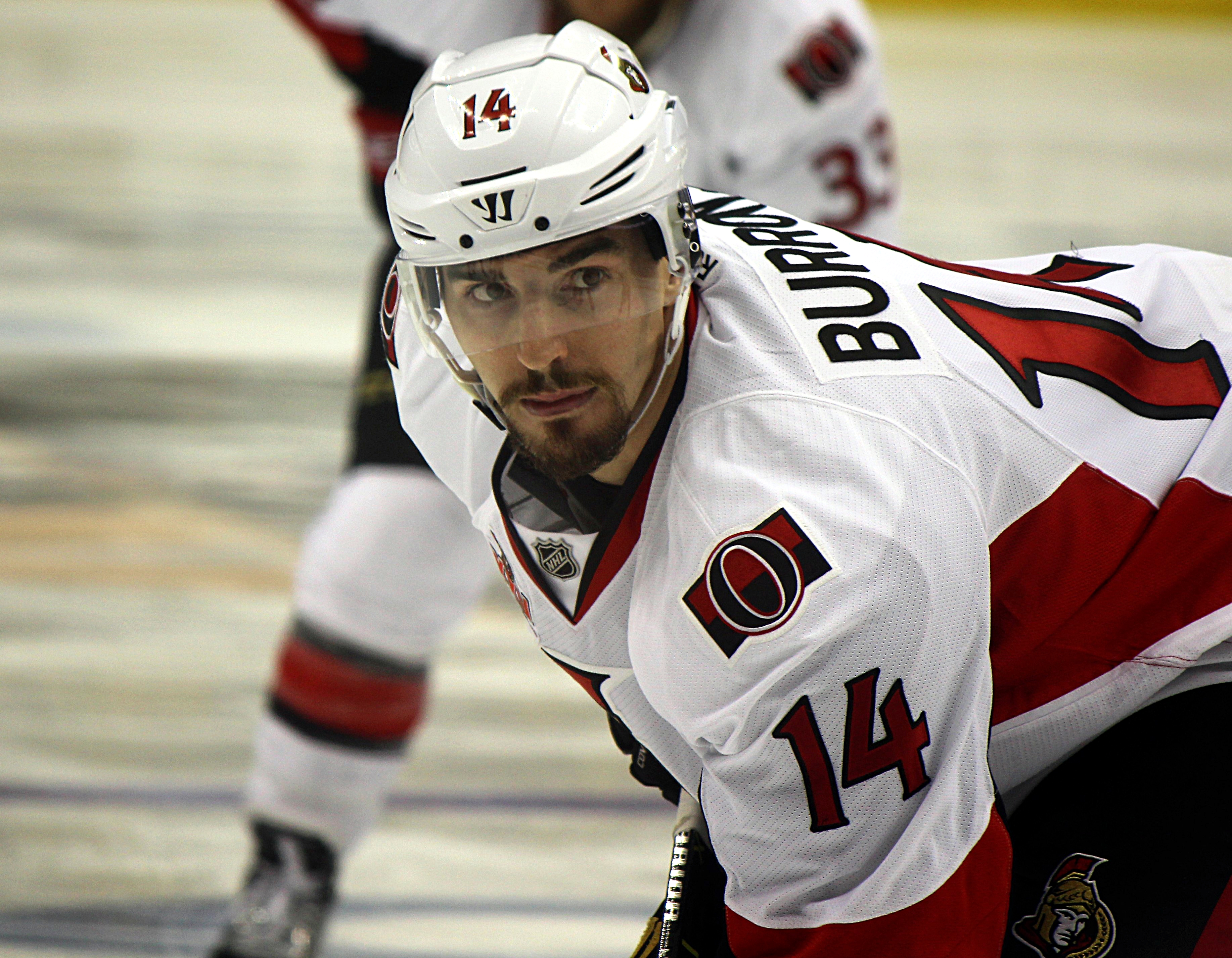 Ottawa Senators forward Alexndre Burrows during a playoff game against the Pittsburgh Penguins, May 13, 2017, at PPG Paints Arena in Pittsburgh, PA.